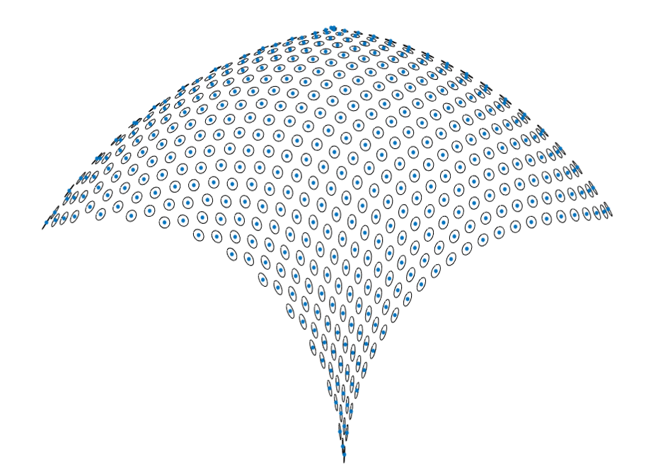 These ellipses show the unit step direction of the endpoint dx due to combinations of inputs dq of vector magnitude of one.